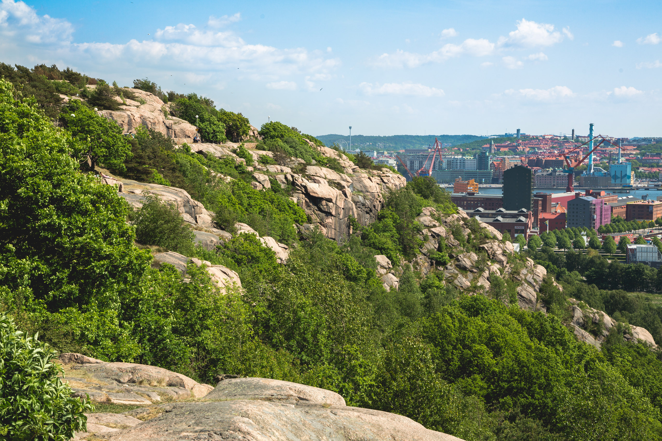 Ramberget overlooking Göteborg.